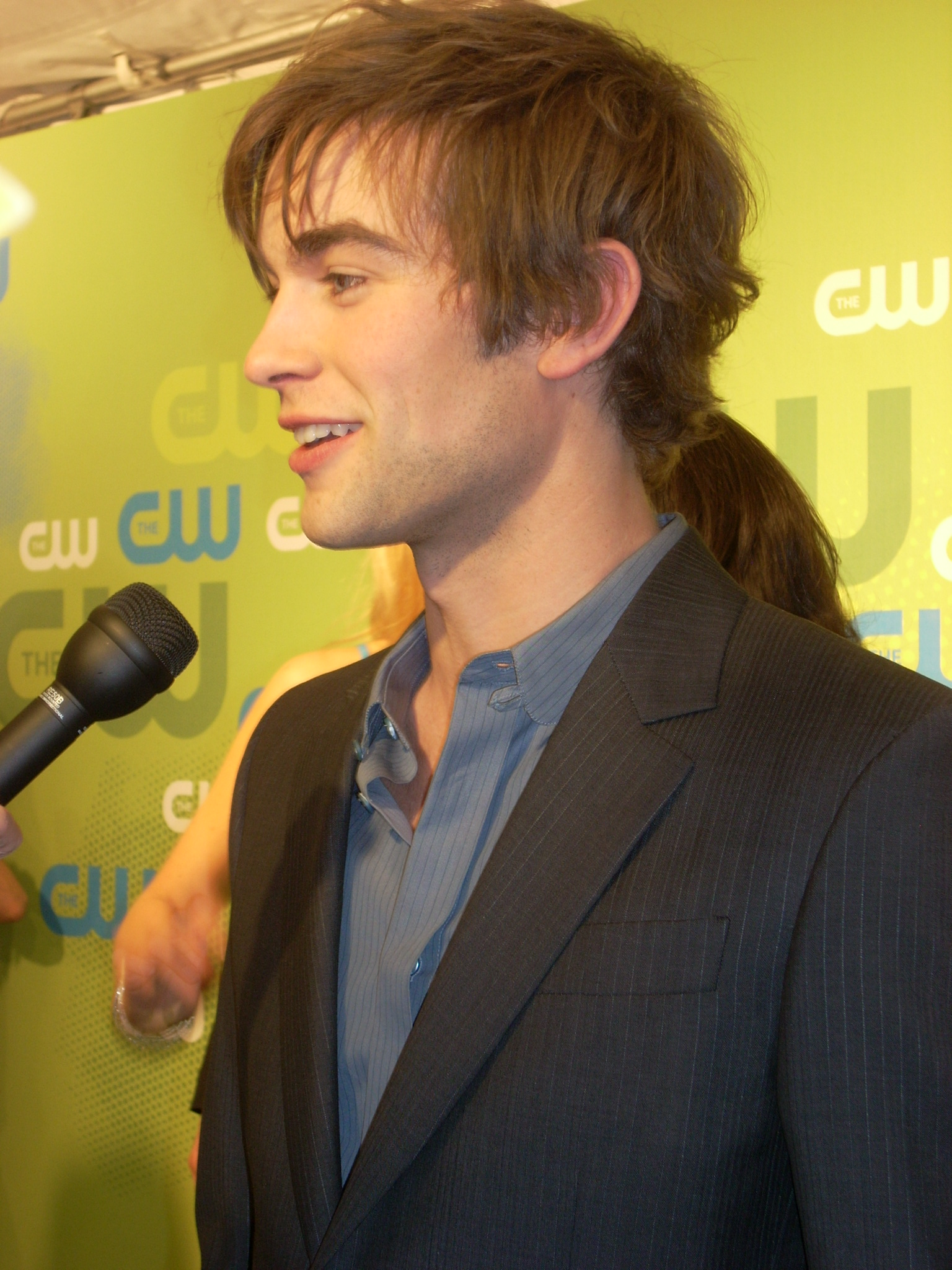 Chace Crawford at the CW Upfront Presentation: Green Carpet Arrivals, Madison Square Garden, New York City - May 21, 2009